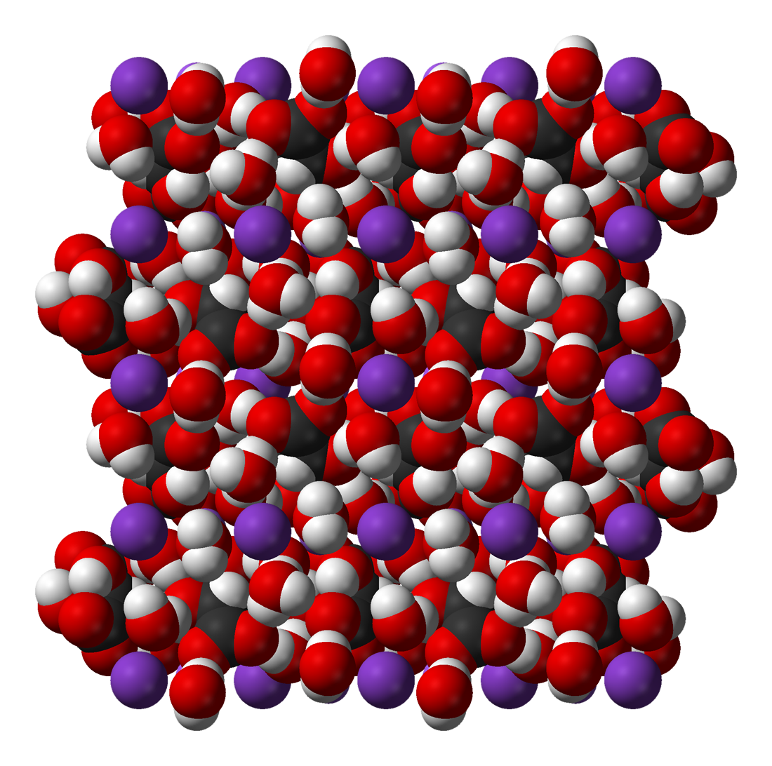 Space-filling model of part of the crystal structure of potassium sodium tartrate tetrahydrate, KNaC4H4O6·4H2O, in its paraelectric phase at 105 K. X-ray crystallographic data from Acta Cryst. (2008). E64, m507-m508. Model constructed in CrystalMaker 8.1. Image generated in Accelrys DS Visualizer.